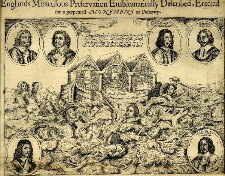 Broadside allegory, with an engraving showing the Ark of England containing three chambers, the House of Lords, House of Commons and the Assembly (of Divines?), preserved safely from the flood, in which Royalists drown.